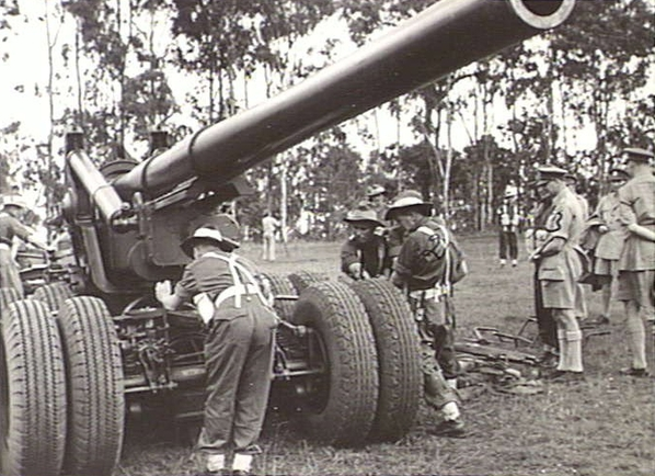 Wondecla, Queensland. 1945-02-14. The Duke of Gloucester, Governor General of Australia, (3), accompanied by senior officers watches D Troop, 6 Medium Battery, 2 Medium Regiment troops train with the 155-mm gun in the 1 Corps area. Identified personnel are :- Gunner E G Hegarty, (1) Gunner J SMITH, (2)